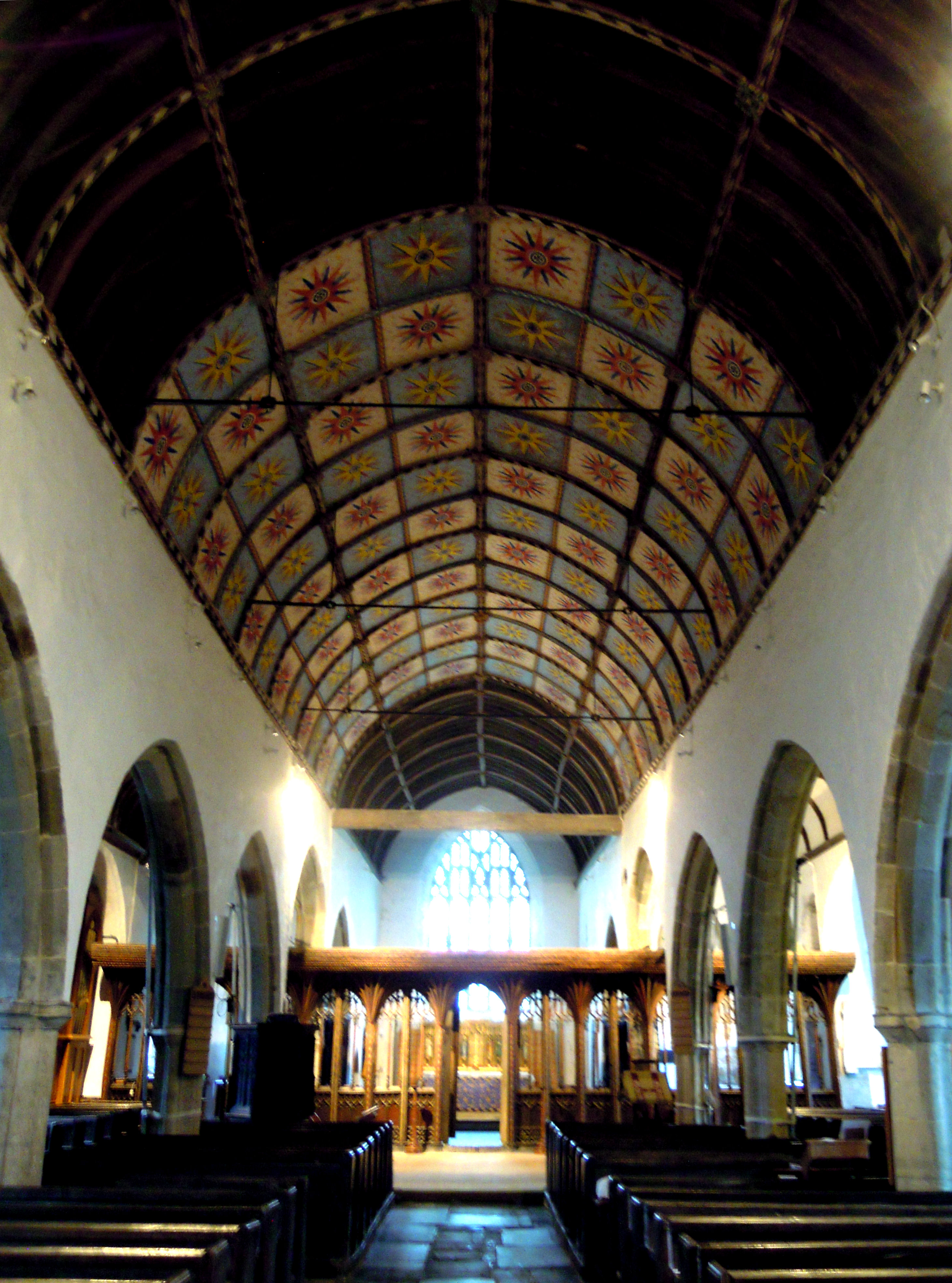 View down the nave showing the wagon-roof at St Nectan's Church, Hartland in Devon